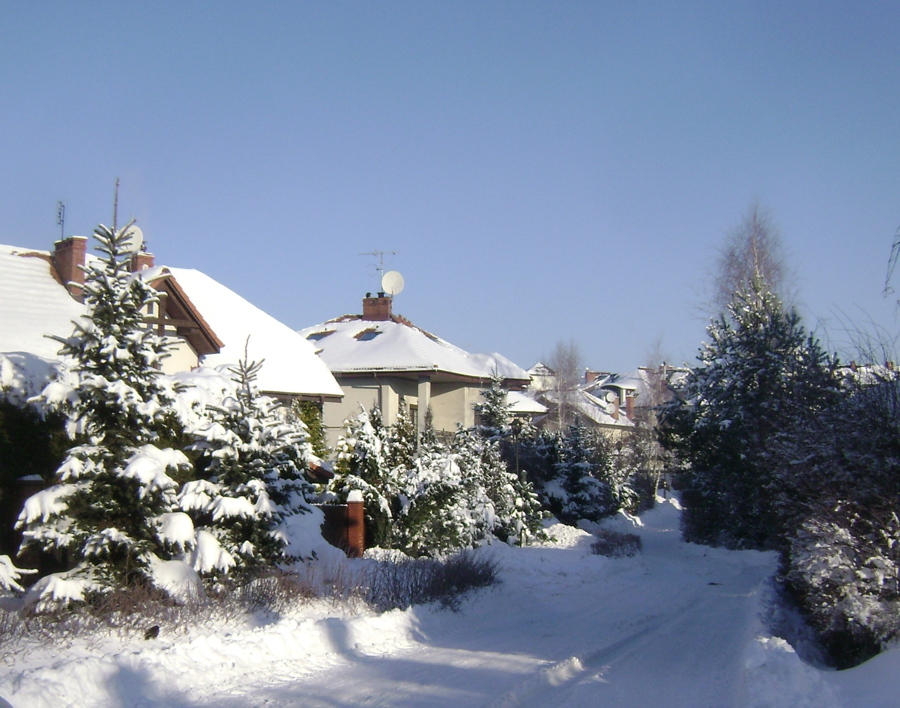 Poland. Konstancin-Jeziorna. Kochanowskiego Street